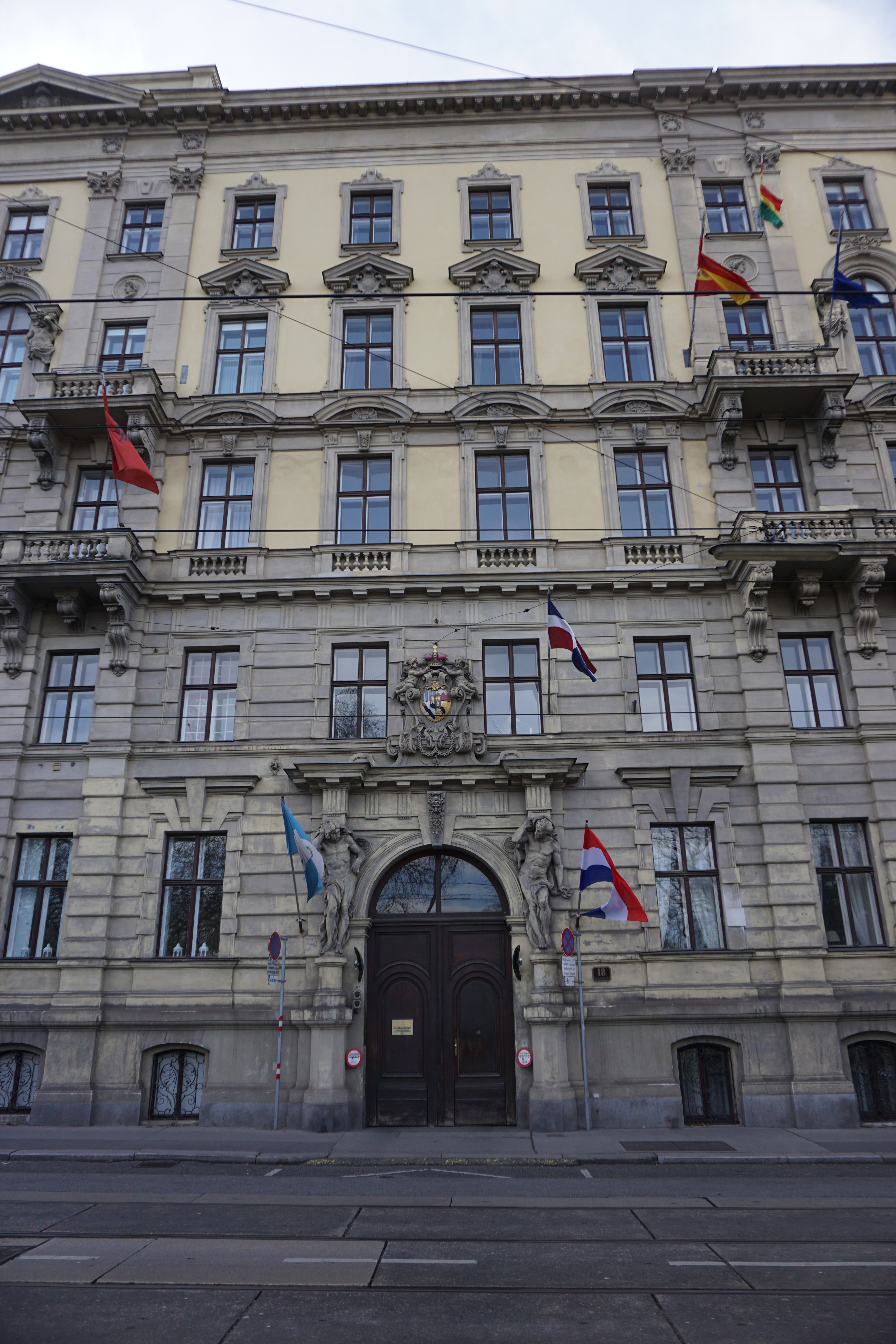 The front of the embassy of the Republic of Albania in Vienna